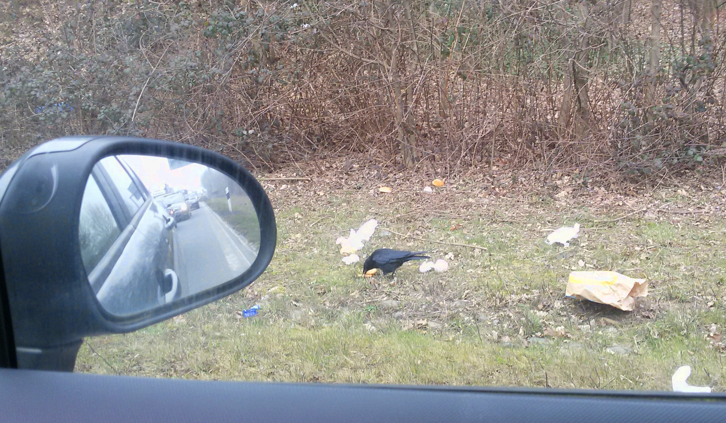 Crow working on roadside waste